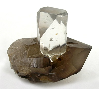 Quartz, Topaz Locality: Groot Spitzkopje (Groot Spitskopje; Große Spitzkoppe), Swakopmund, Swakopmund District, Erongo Region, Namibia (Locality at ) Size: miniature, 4.6 x 4.5 x 3.1 cm Topaz on Smoky Quartz Wow! pics say it all, eh? 3-dimensional, complete, and just a smoker...